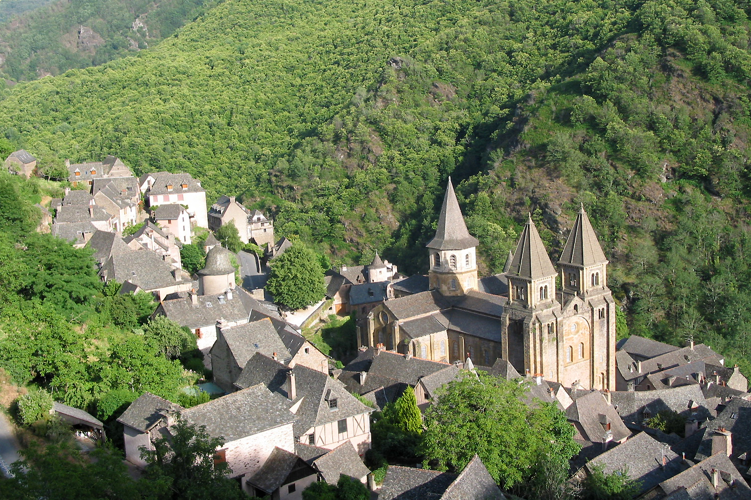 Conques, (Aveyron - France), the medieval village and its delightful Ste-Foy abbey-church (XIth century).